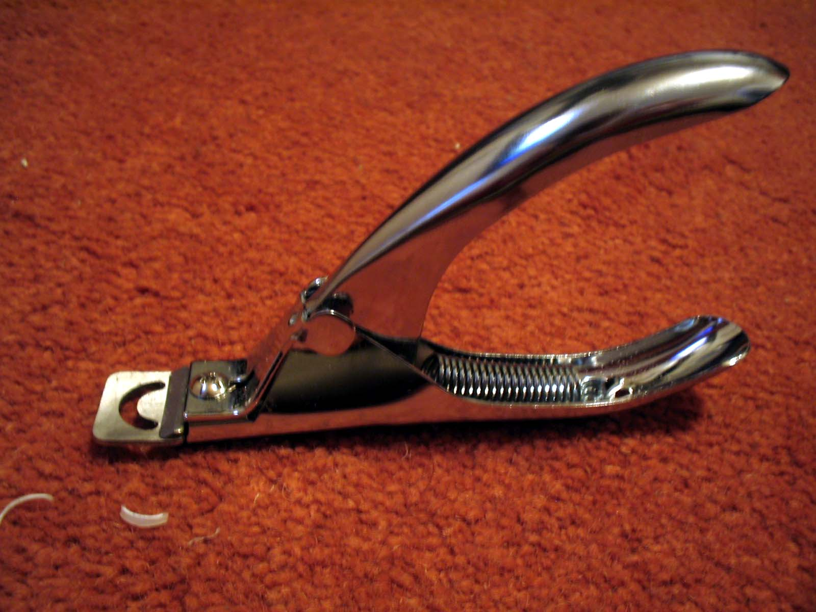 nail cutting machine , august 2005